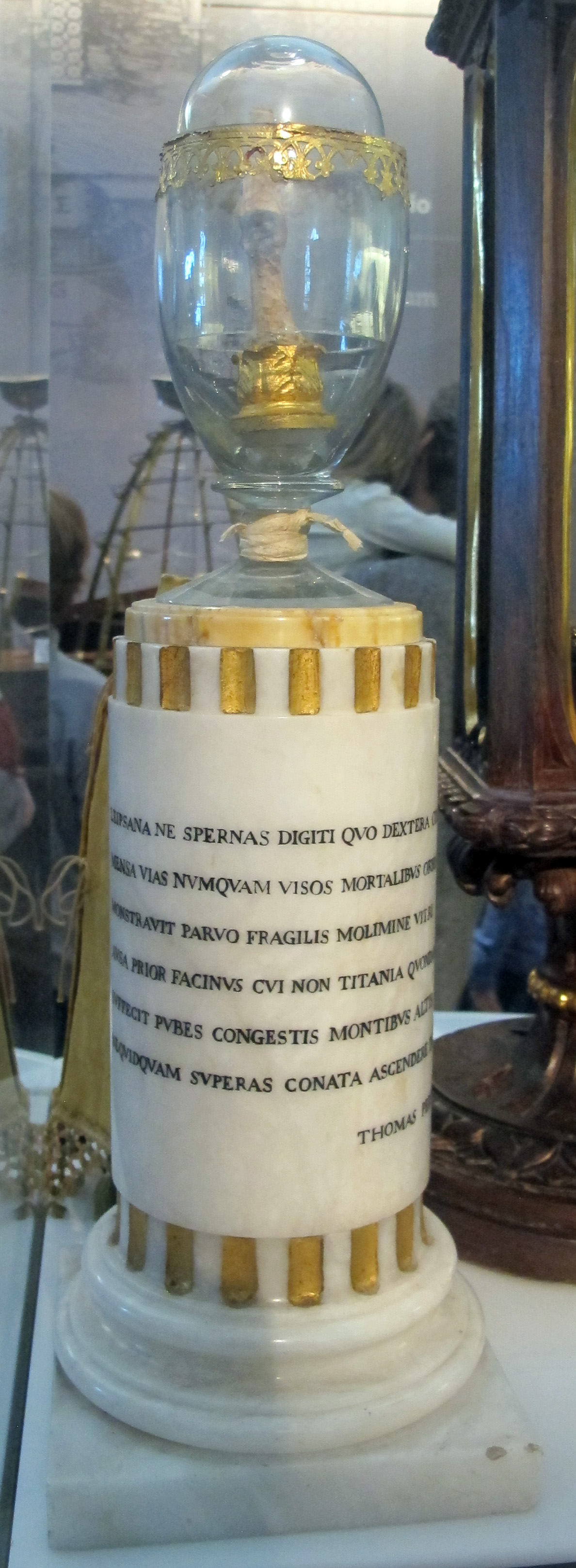 Middle finger of Galileo's right hand.